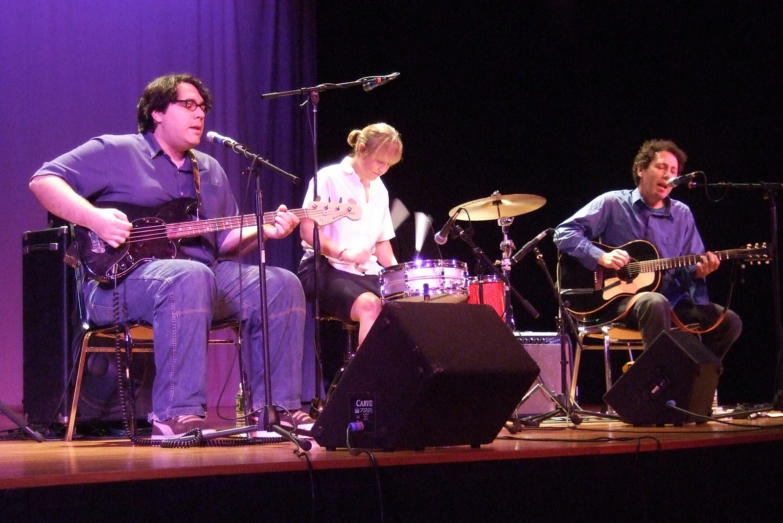 Yo La Tengo at Landmark on Main Street, Port Washington, New York, during the Freewheeling Tour.